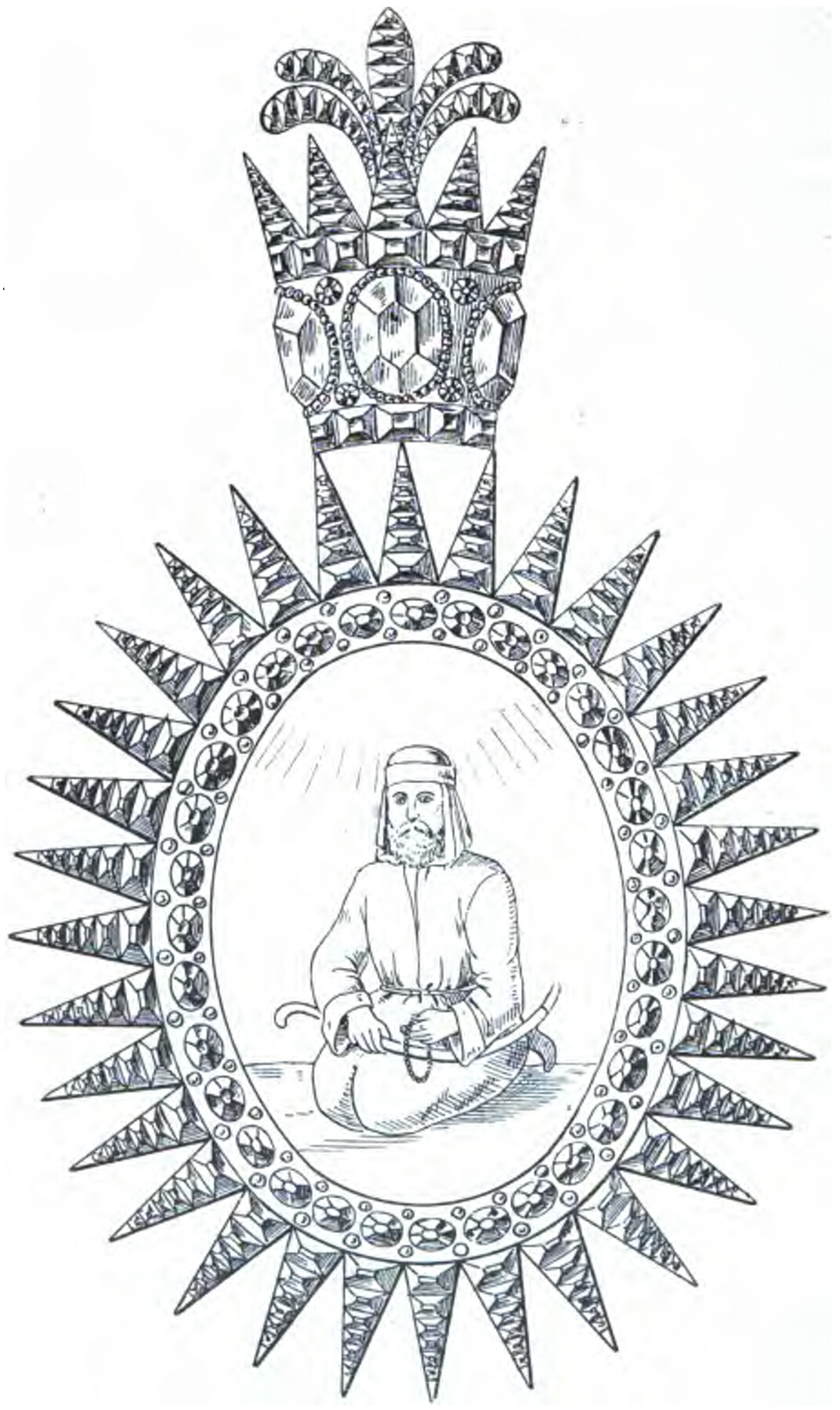 Order of Ali Iran 1893